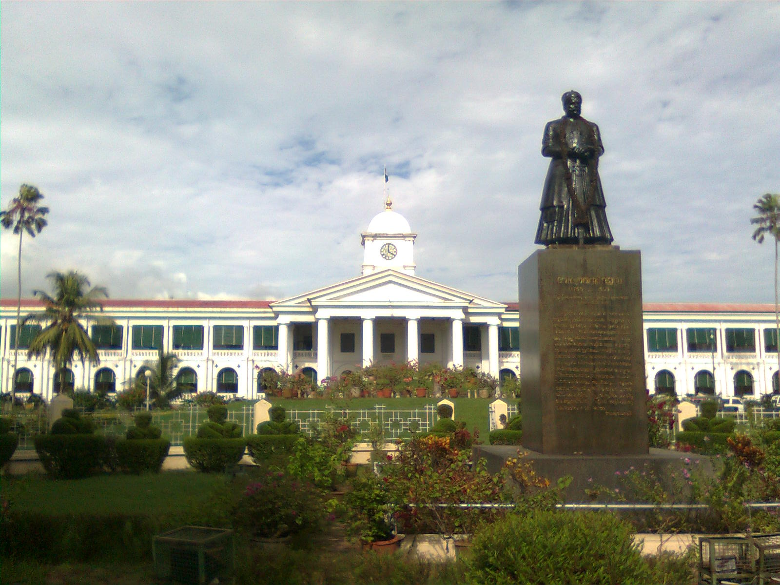 Kerala Secretariat, the seat of administration of the state, is a mighty whitish Victorian structure located at Statue Junction in Thiruvananthapuram. The construction was started during the period of His Highness Ayilyam Tirunal, the then Maharaja of Travancore and was completed in 1869. The building is a classical example of British décor and was designed by Barton, a British chief engineer. The crowning of His Highness Chithira Tirunal, the last king of Travancore, was held at the Secretariat. The assembly hall, now a historical monument, attached with the Secretariat complex was inaugurated in 1936. Visitors are allowed only after 15.00 hrs with an entry pass. Trivandrum International Airport is at Shanghumugham, 7 km from the city and Thiruvananthapuram Central Railway Station is in the heart of the city. British Library, University College and VJT Hall are nearby.